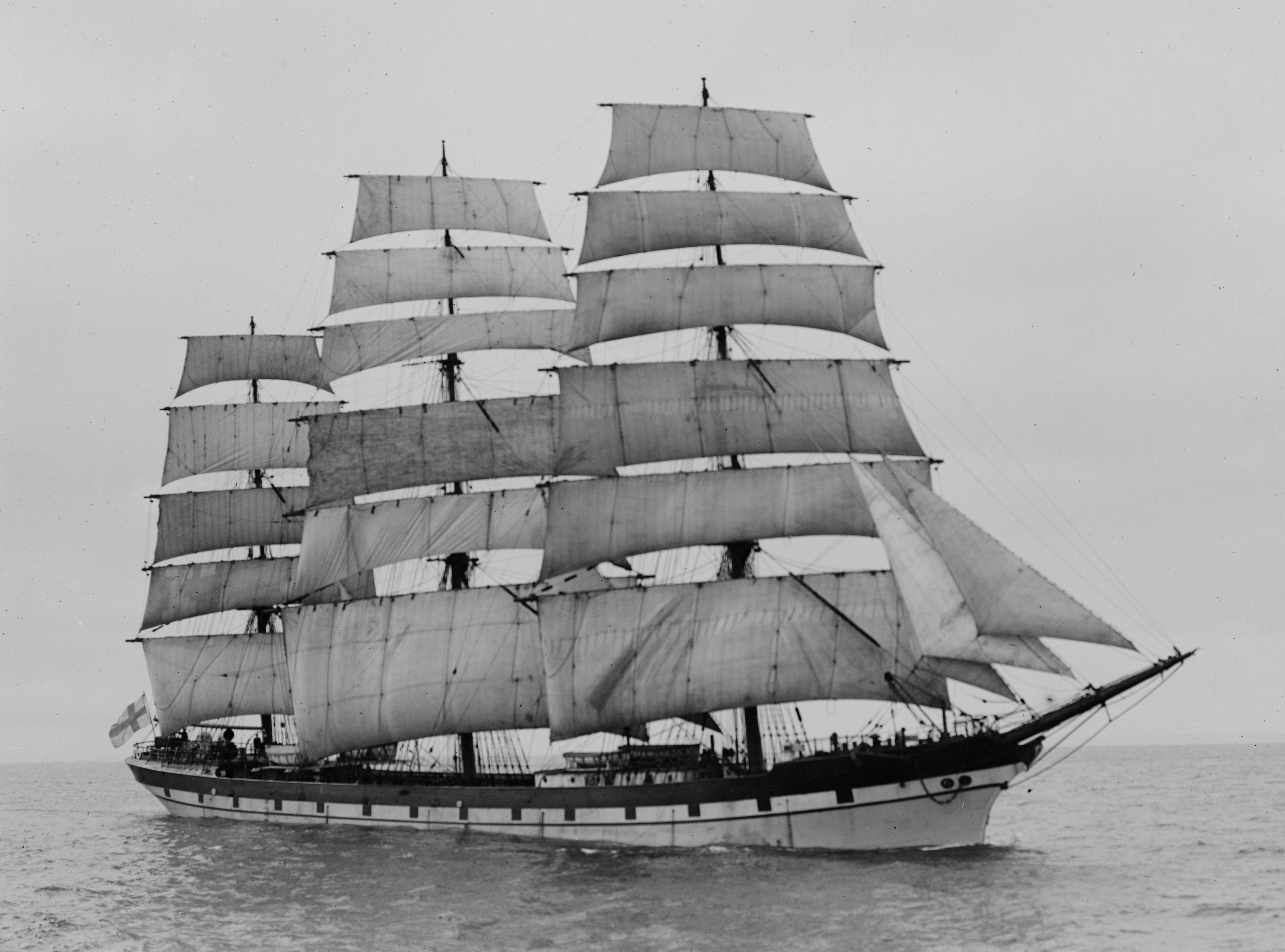 The full rigged ship Grace Harwar under full sails.